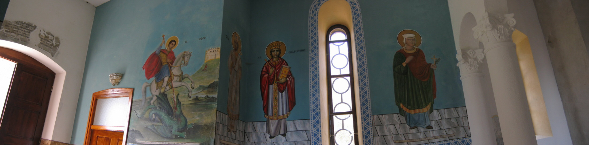 Interior of the St. Athanasius Church in Lešok Monastery, Macedonia